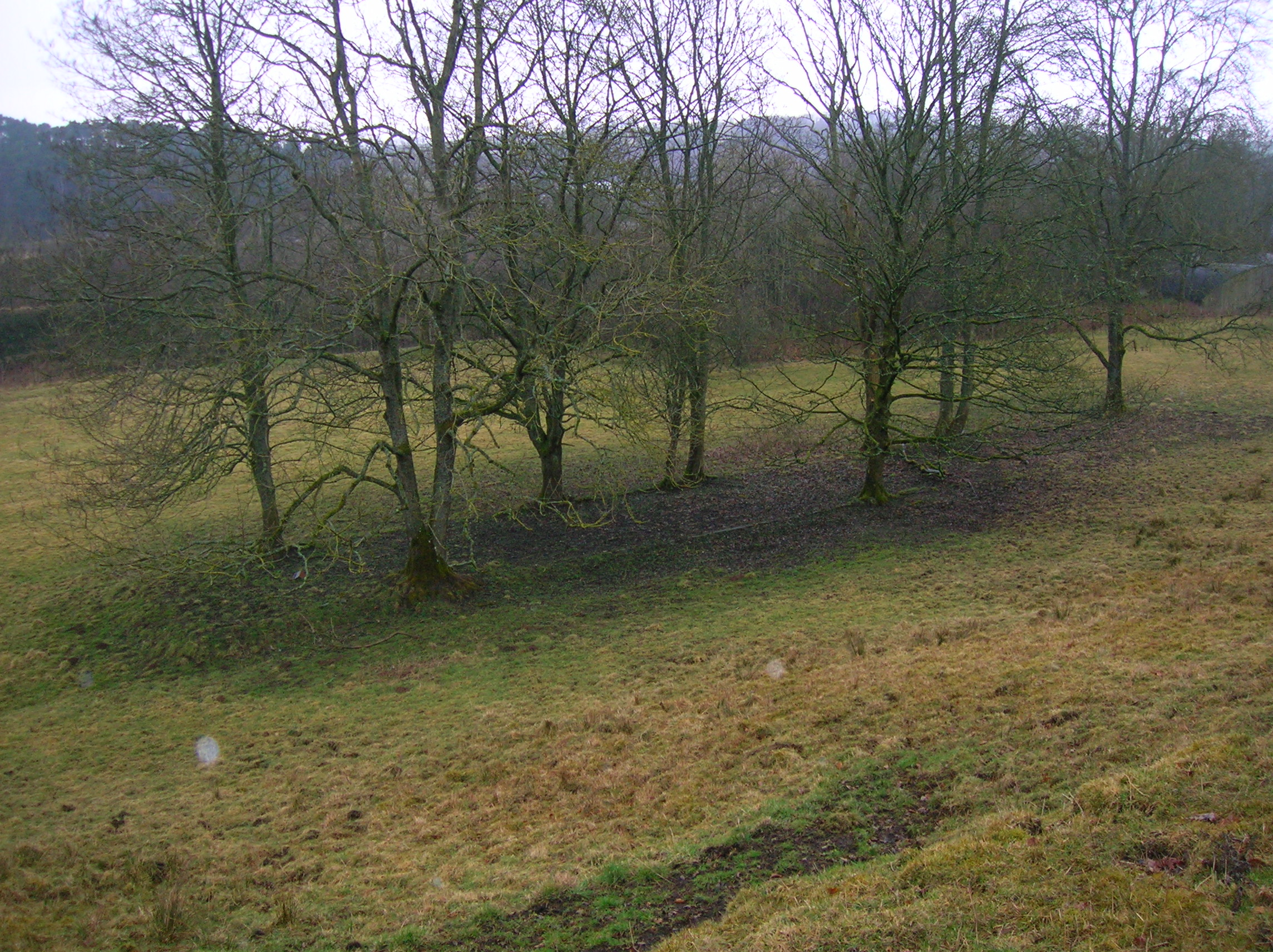 Dalmore Holm, foundations of a long narrow building beneath mature trees. Stair, East Ayrshire, Scotland